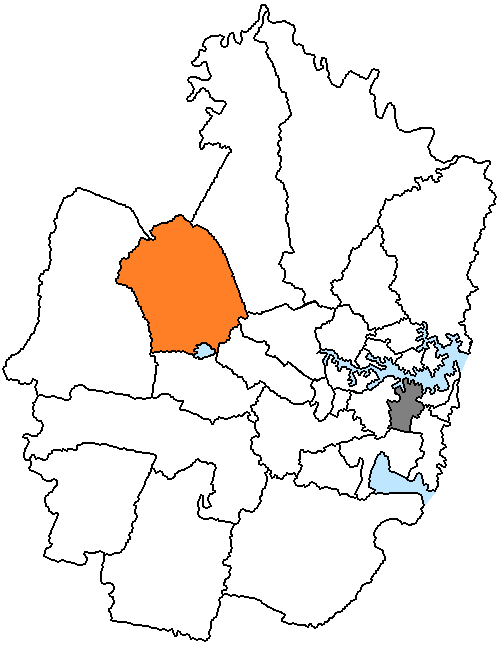 Map of Sydney/New South Wales/Australia, LGA of Blacktown City highlighted